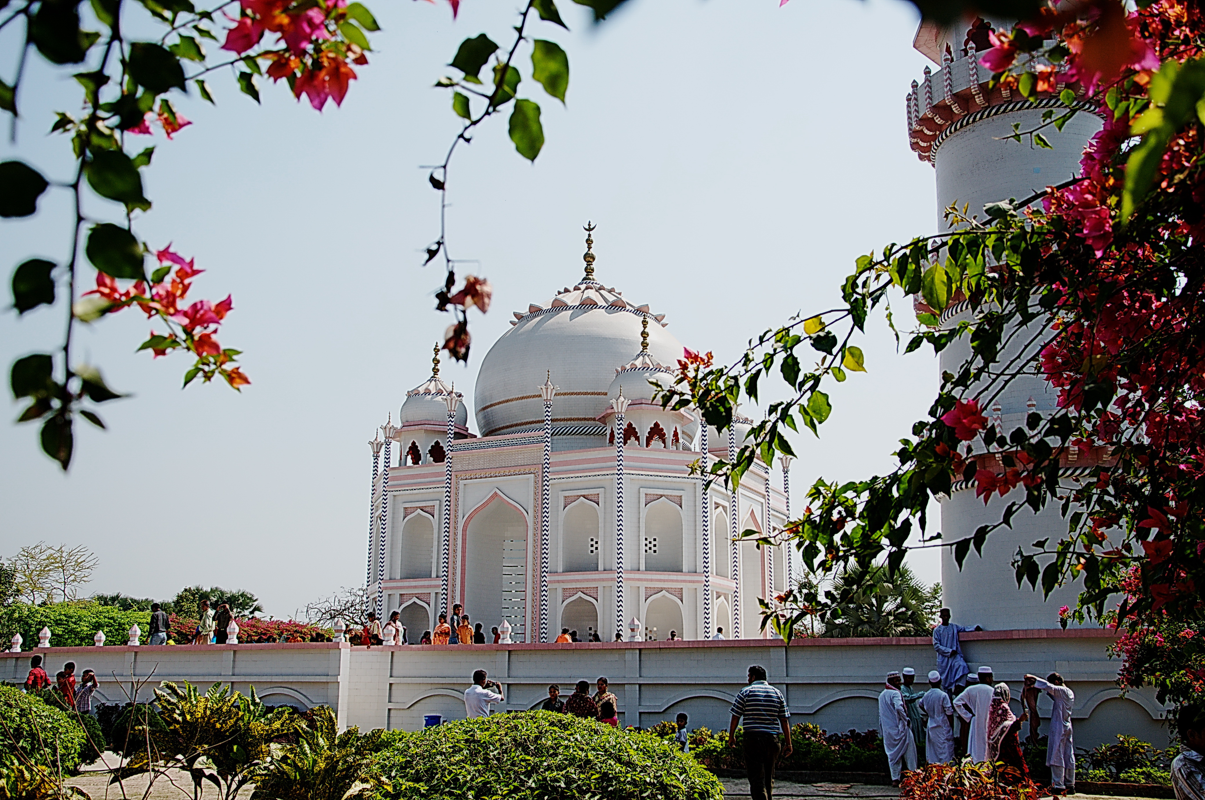 Replica of the Tajmahal located at Peradi, Sonargaon, Dhaka